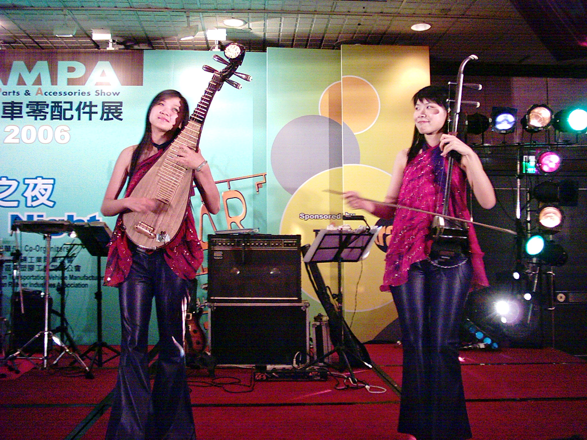 Taipei New Wave Ensemble play pop songs with Chinese Traditional strings at 2006 Taipei AMPA Buyers' Night.中文（台灣）: 台北新潮樂集在2006年台北國際汽機車零配件展買主歡迎酒會中，以中國樂器演奏流行音樂。